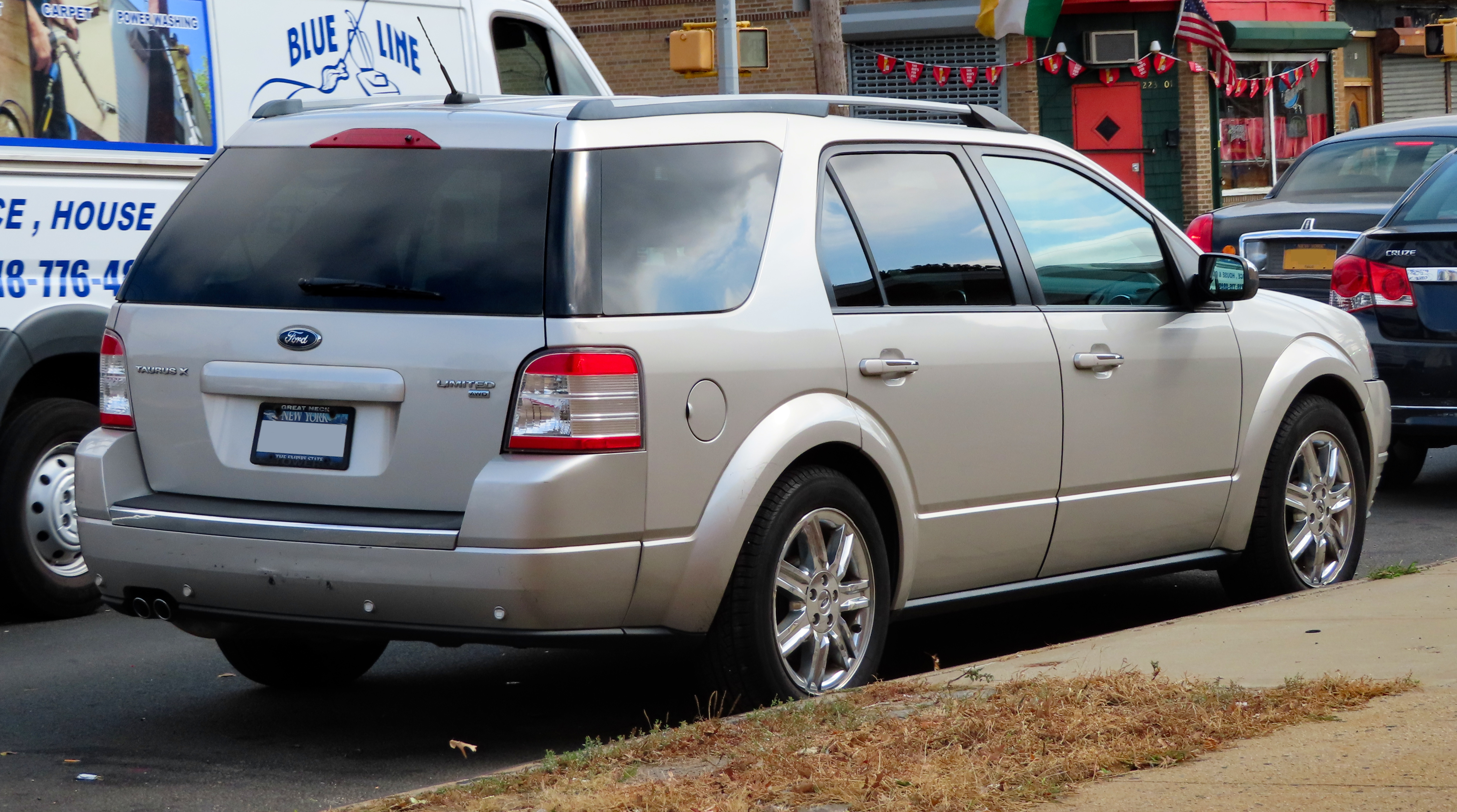 A 2008 Ford Taurus X Limited photographed in Jamaica, Queens, New York, USA